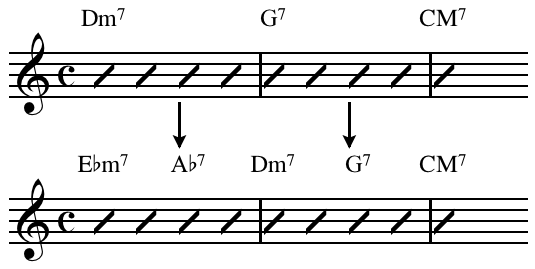 Created by Hyacinth (talk) 07:47, 15 December 2010 using Sibelius 5. Side-slipping through distant ii-V.